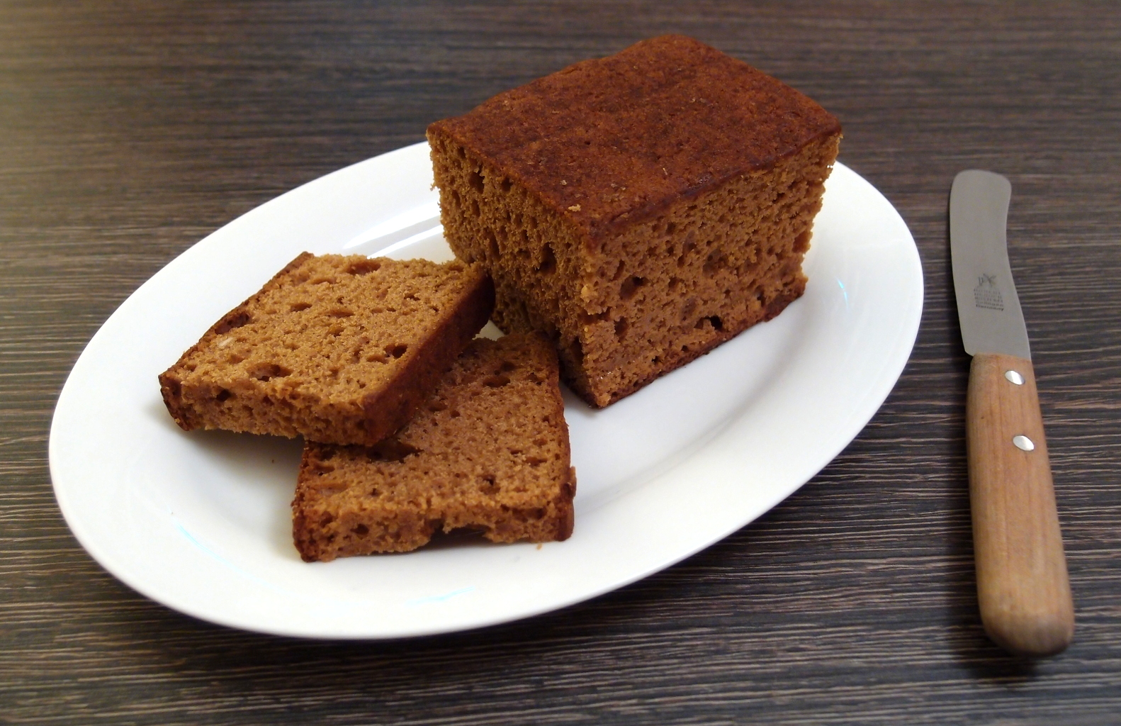 Dutch style gingerbread loaf with honey, sold in Germany as Honigkuchen (gingerbread; literally “honey cake”) – unpacked and cut open.